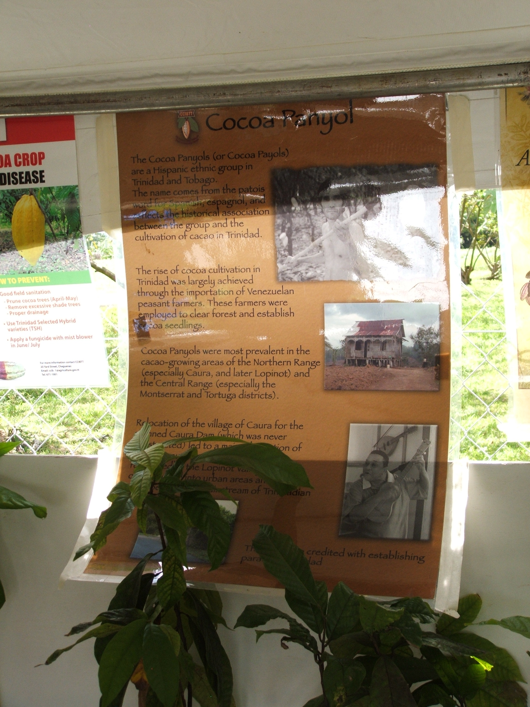 Brief account of the Cocoa Panyols of Trinidad and Tobago